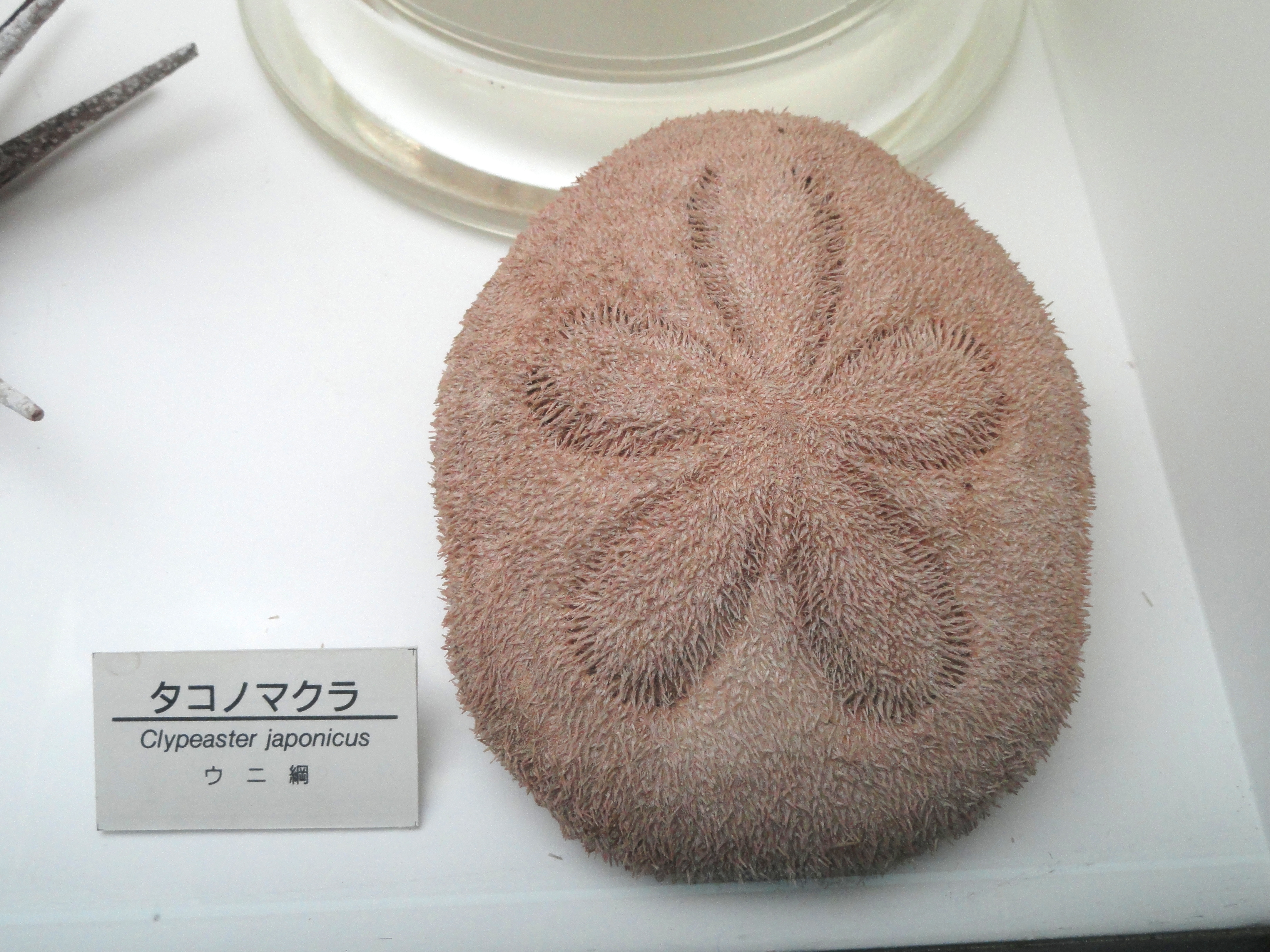 Exhibit in the Osaka Museum of Natural History, Osaka, Japan.